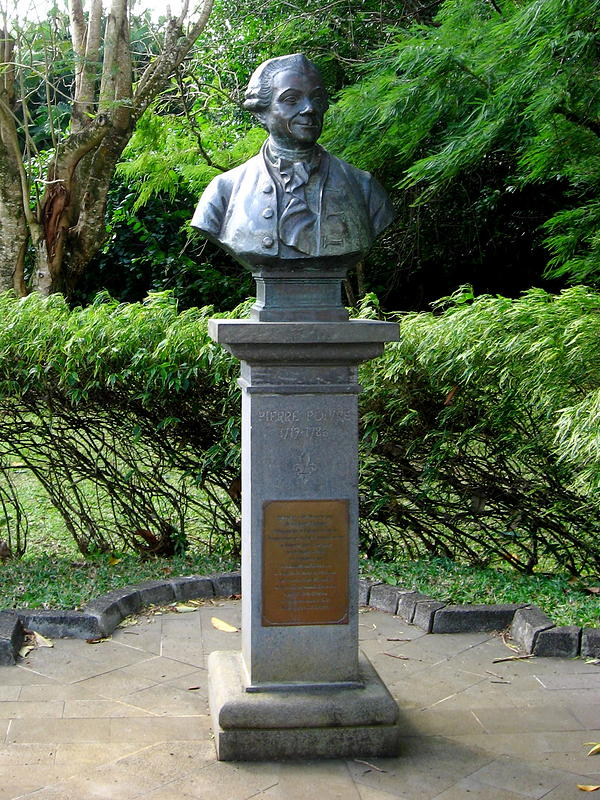 Pierre Poivre, the father of the Pamplemousses Botanic Garden.